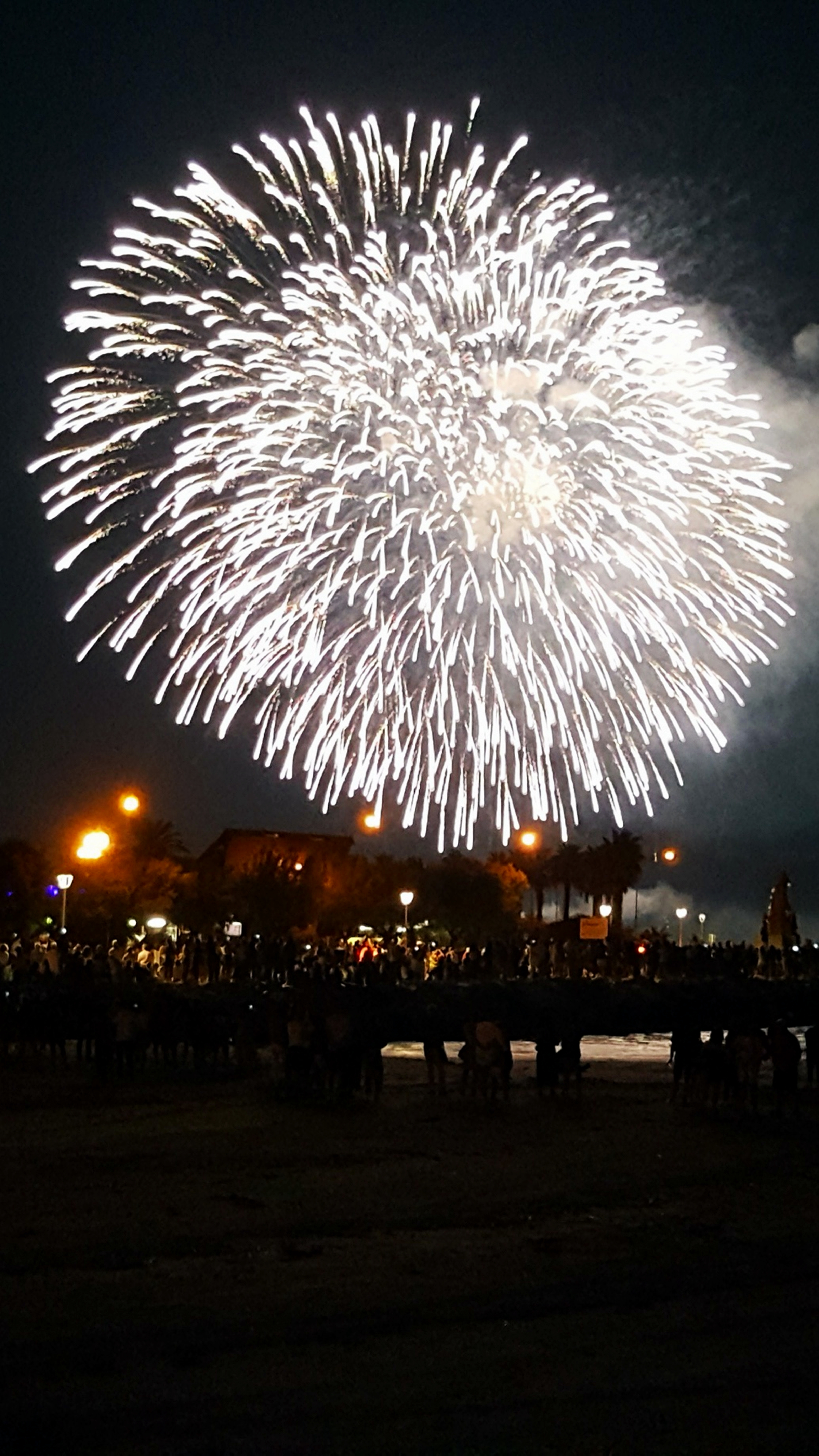 San Benedetto del Tronto, piorotechnical show for the celebration of the Madonna della Marina festival